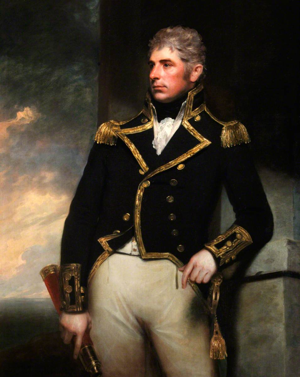 Admiral Sir Harry Burrard-Neale, by William Beechey Medium oil on canvas Measurements H 140 x W 110 cm Accession number 1981/77